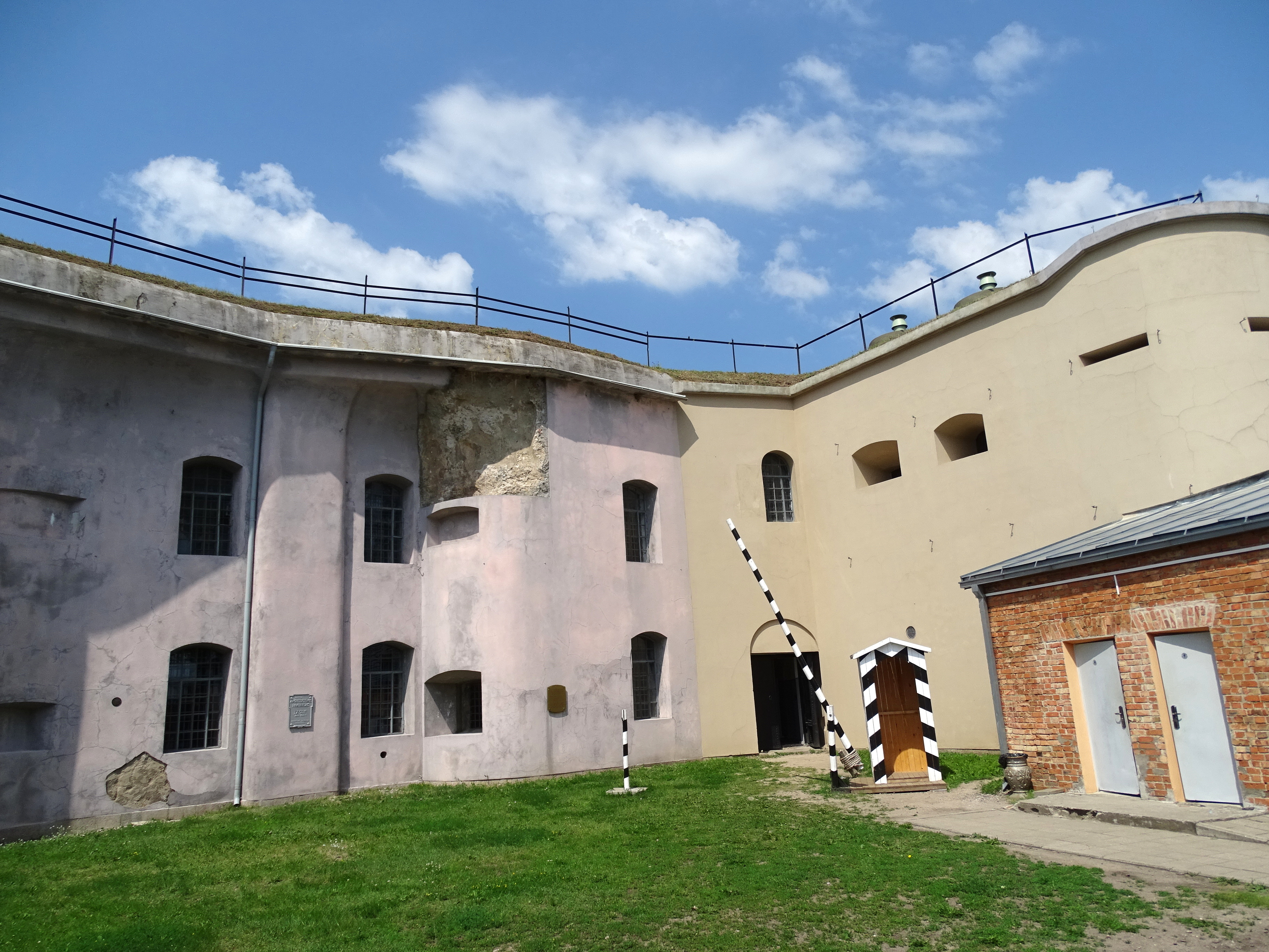 Courtyard of Ninth Fort - Nazi Genocide Site - Kaunas - Lithuania